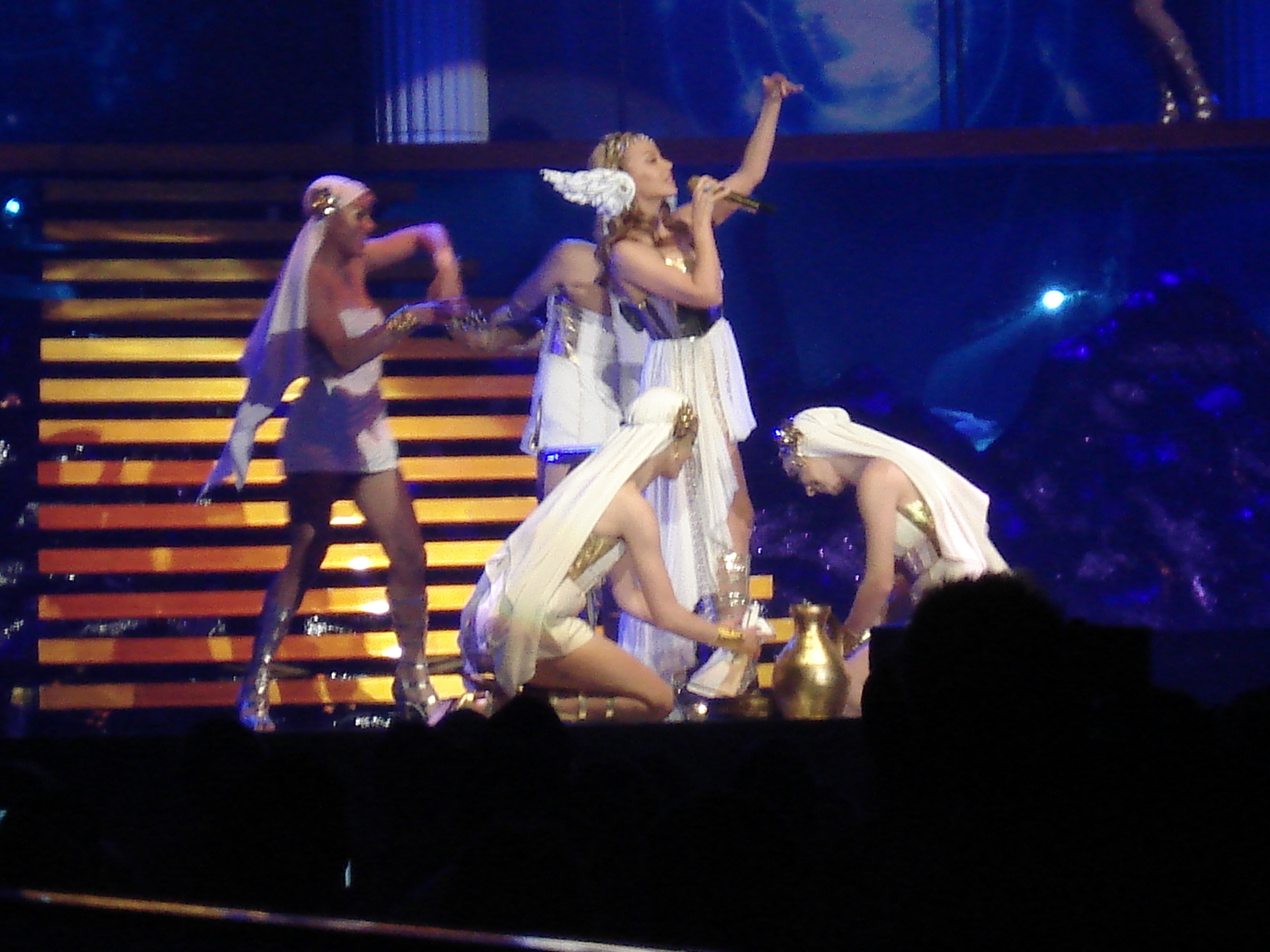 Kylie Minogue in her show "Aphrodite - Les Folies Tour 2011" in Amnévile